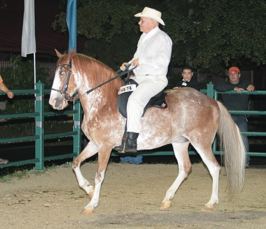 Sabino Pinto Pattern Puerto Rican Paso Fino Mare